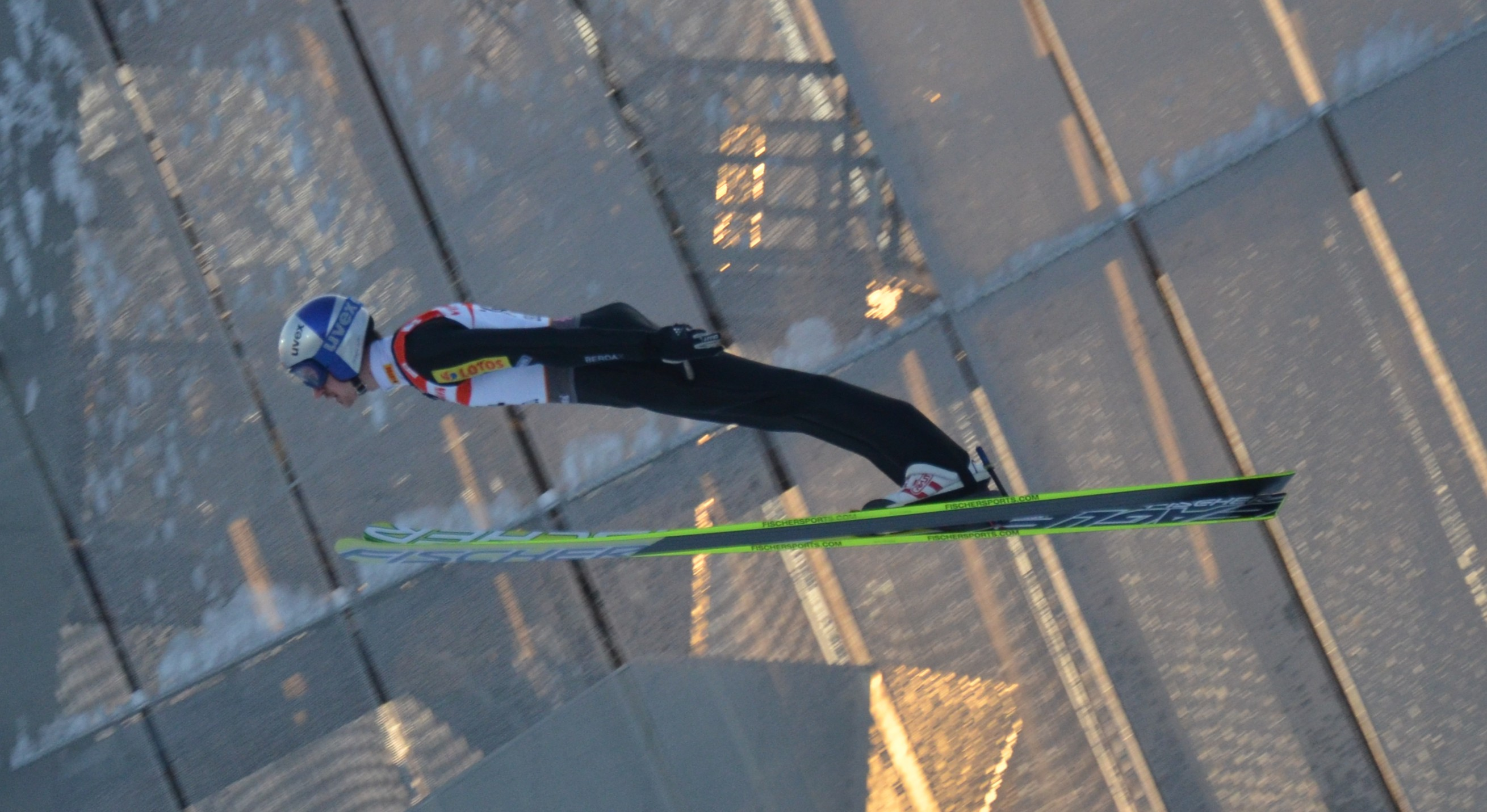 Adam Małysz at the World Championships 2011 during training at the large hill